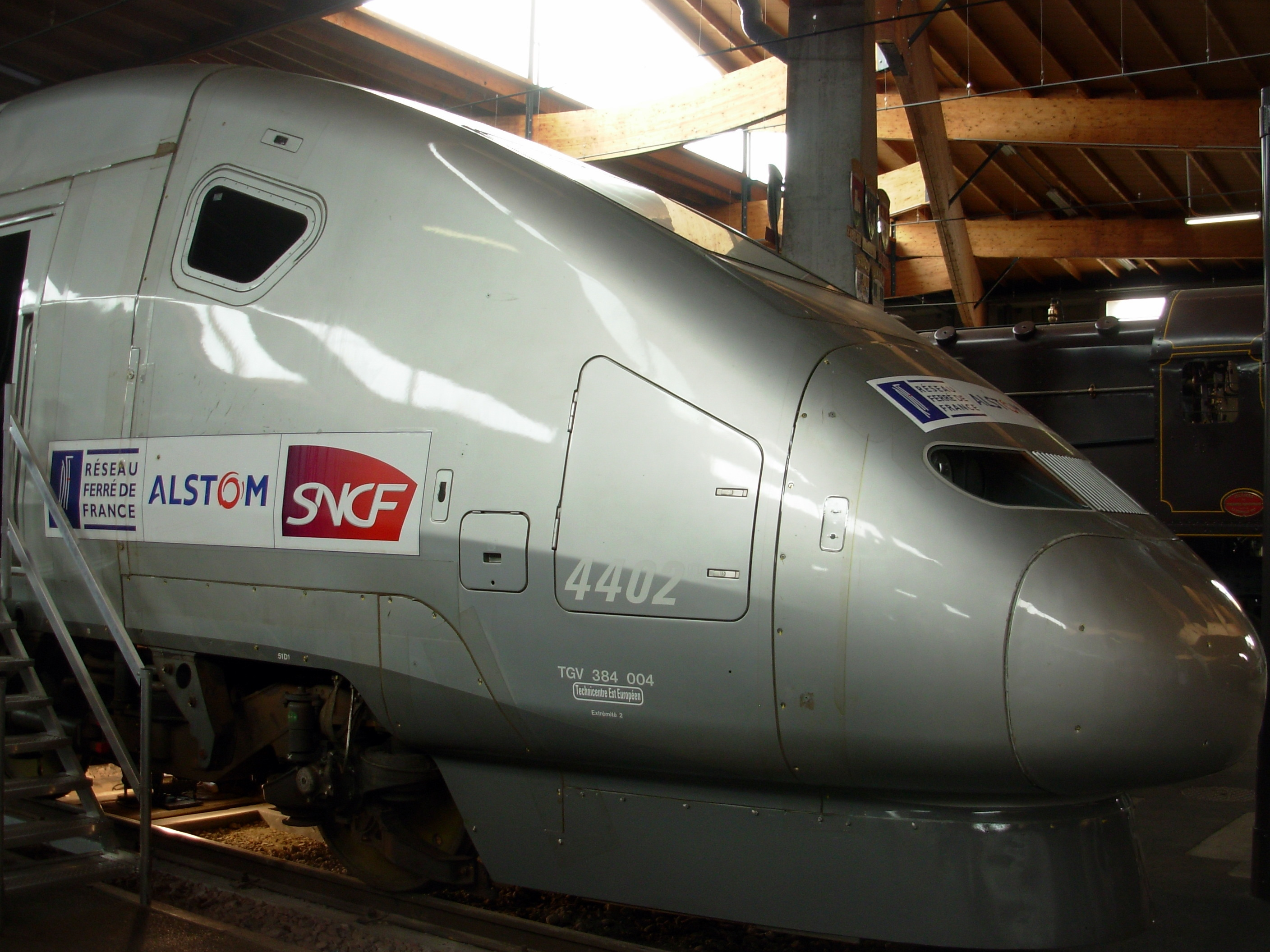 Top of the TGV 4402 speed record. Cité du train, Mulhouse, France.